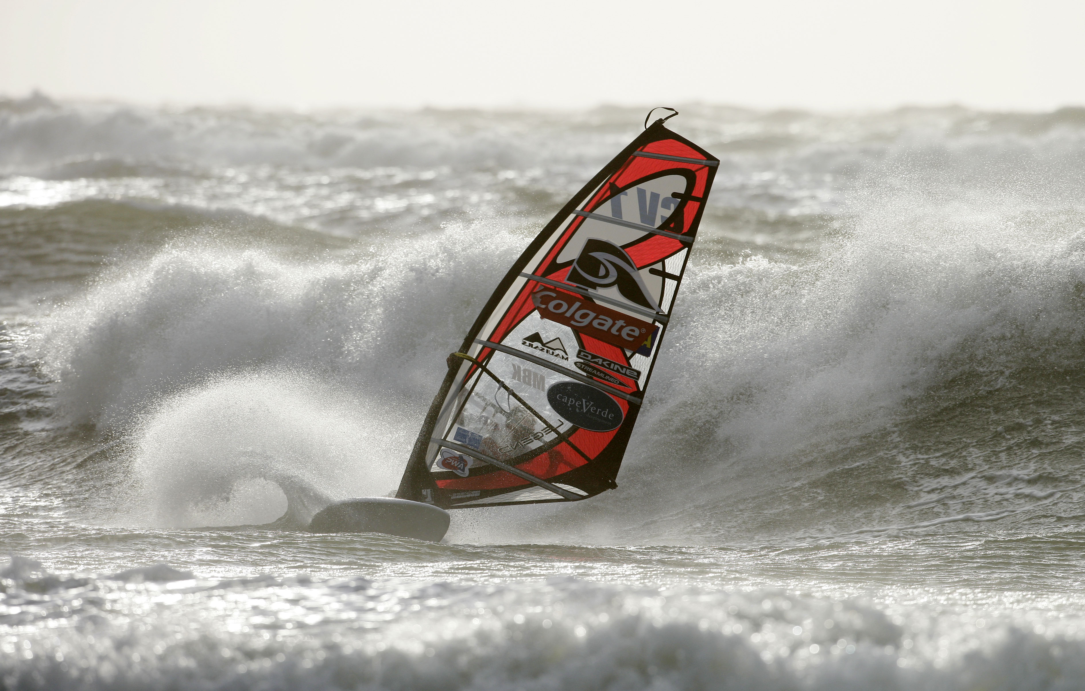 Josh Angulo, wave contest, Windsurf World Cup Sylt 2009